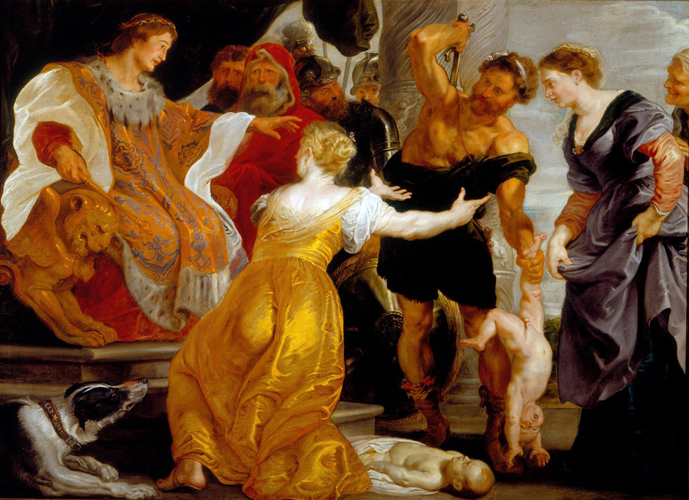 As the frame states, "it was given to the City Hall in 1703 by Ewout van Bleiswijck, the son of the Delft mayor Hendrick van Bleiswijck". Hendrick was buried across the market square in the Old Church on 24 August 1703. This copy, like another in Copenhagen, are both copies of Rubens' original that hung in the Brussels City Hall until a fire destroyed it in 1695 (though fortunately a print was made of it before that by Boëtius a Bolswert). The date can be made with some accuracy based on the dog's head, which is very like the dog in Rubens' Diana with her nymphs, departing for the hunt, made about the same time (when Frans Snijders was in Rubens workshop). The Judgement of Salomon was a popular theme for City Hall tribunal ("Vierschaar") halls, and in 1622 the Delft council commissioned Pieter van Bronkhorst's painting with the same subject which still hangs there today.